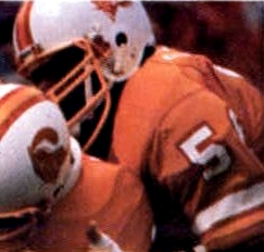 Tampa Bay Bucaneers' linebacker Dewey Selmon pictured in a defensive play against the Philadelphia Eagles during the 1979 NFC Divisional Playoff Game on December 29, 1979.